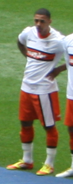 Andre Gray. Image cropped from original at flickr.